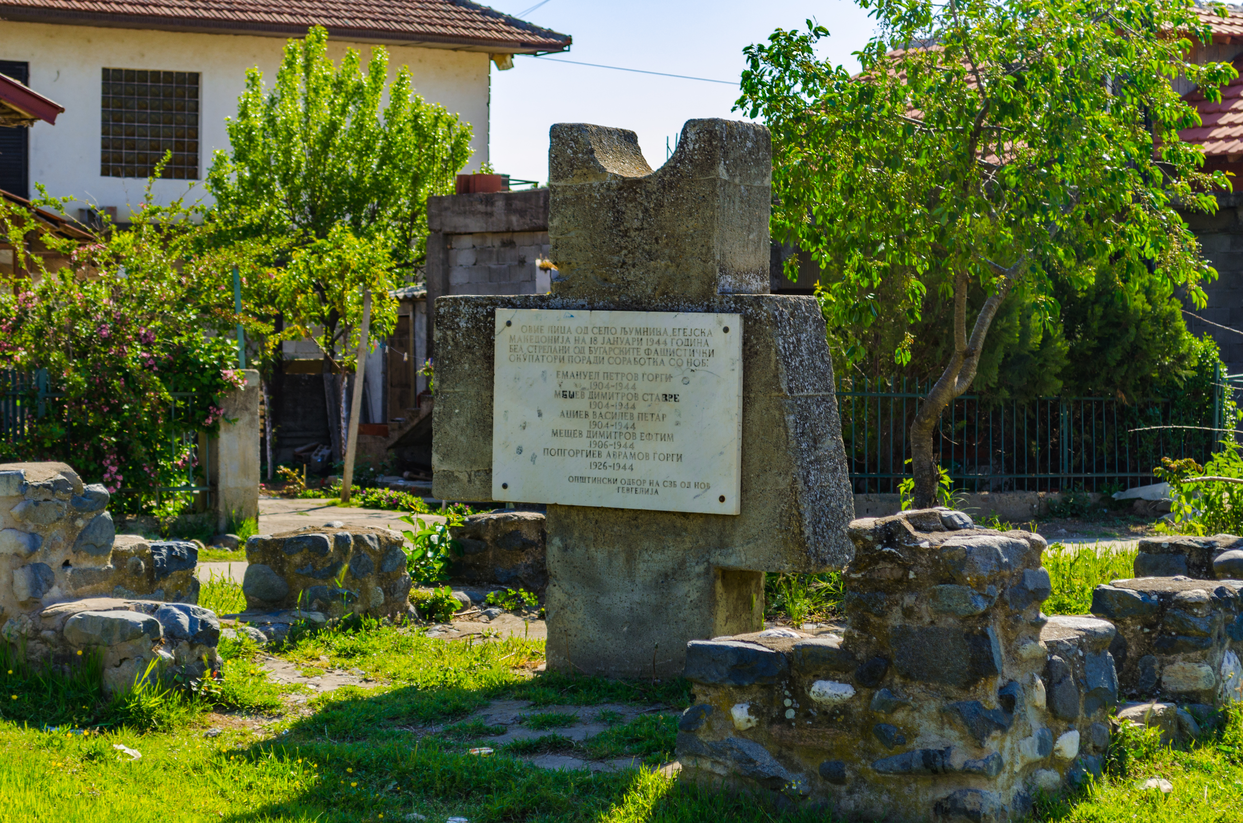 Monument in Moin